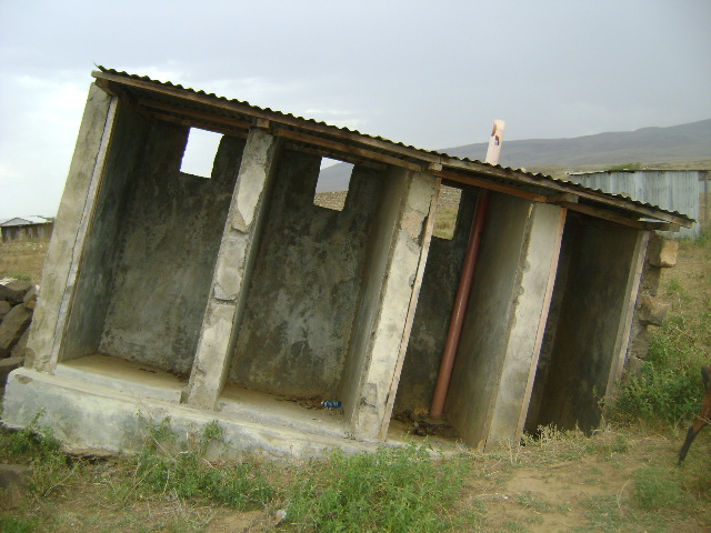 This is a usual situation in this area of Narok in Rift Valley Province, where unlined pit-latrines easily collapse in the sandy and instable soil after heavy rainfalls. Photo by Paul Mboya